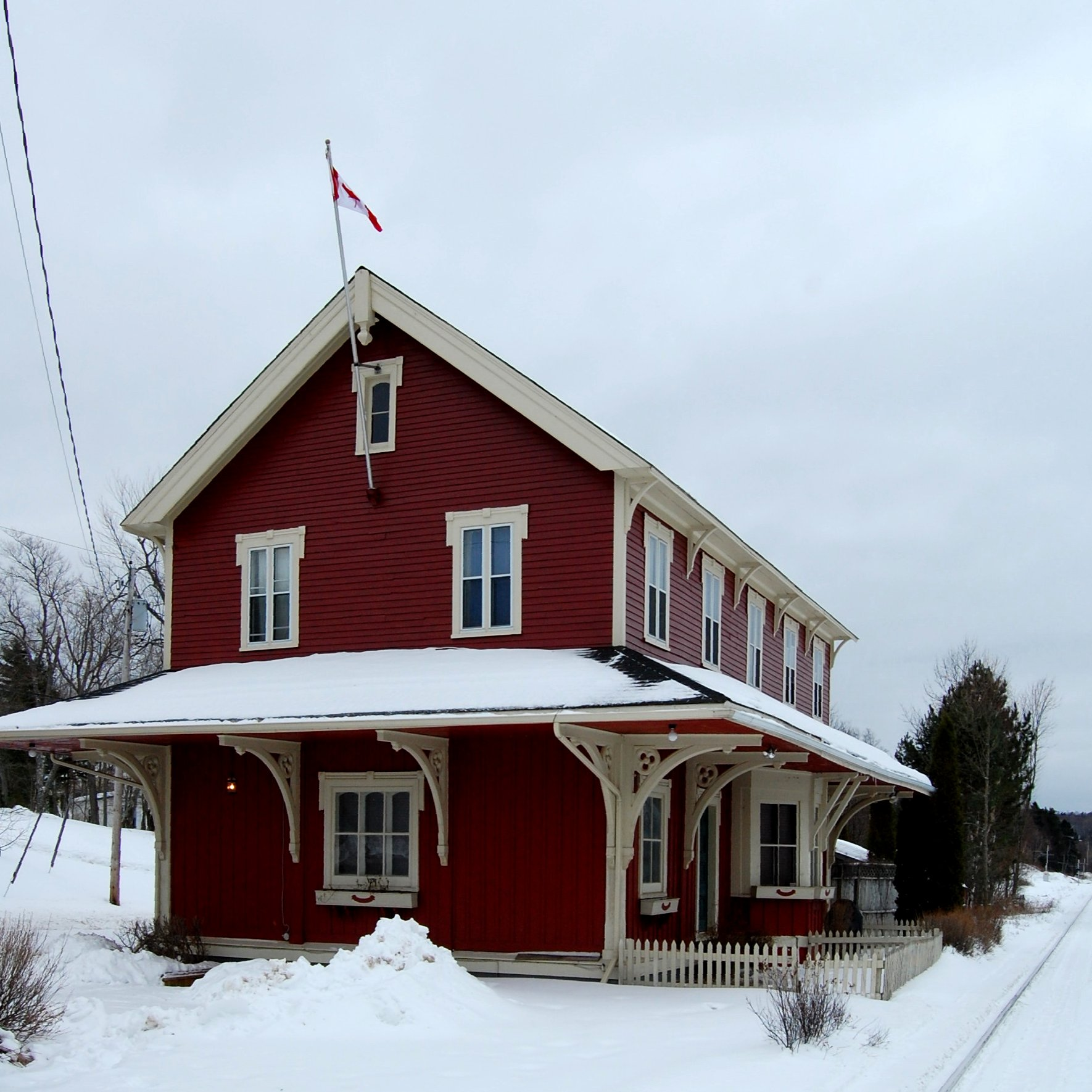 Self-made photo